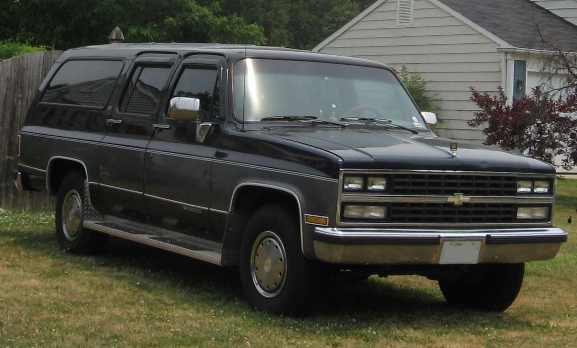 1989-1991 Chevrolet Suburban photographed in USA.